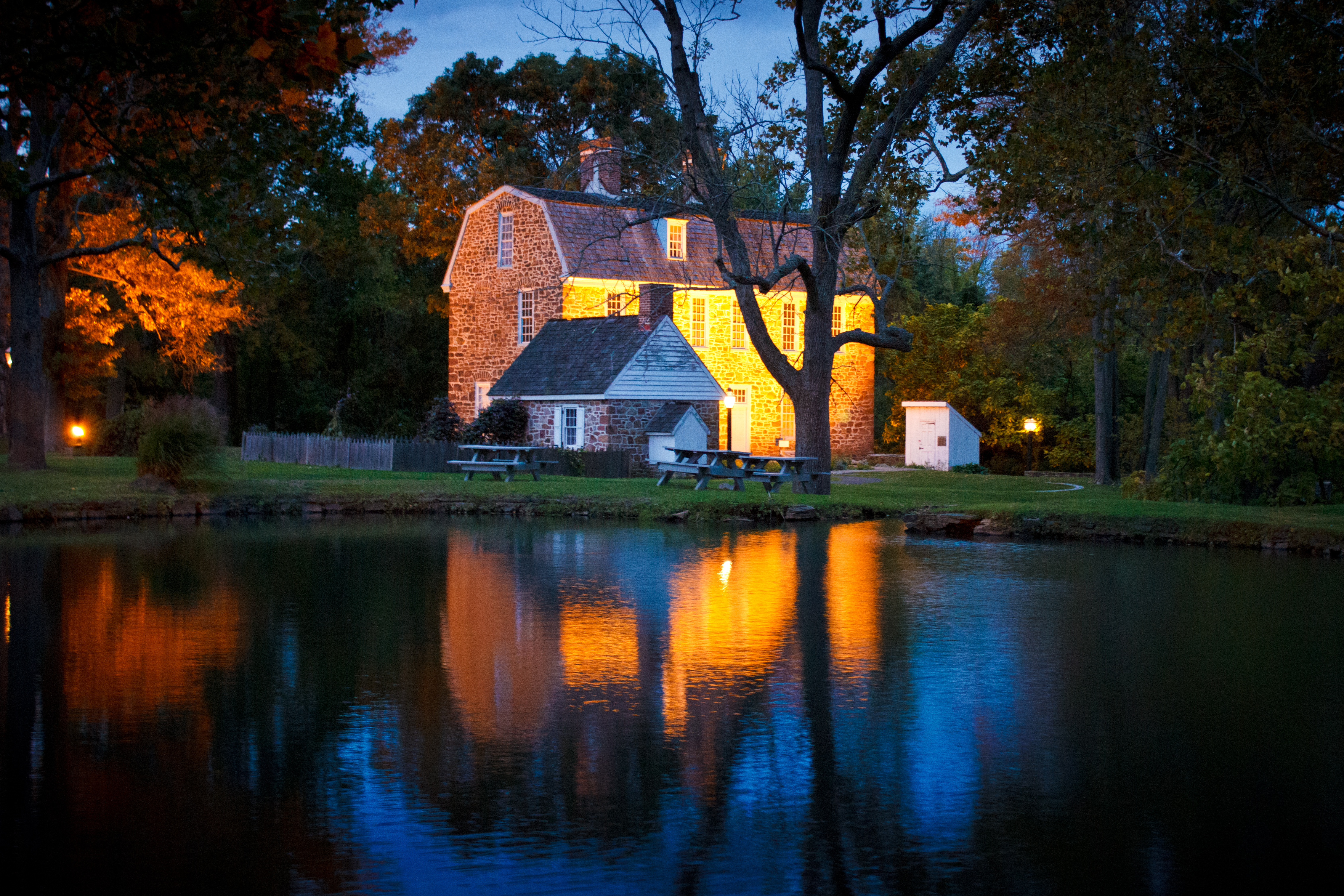 Keith House at Graeme Park in Horsham Township, Montgomery County, Pennsylvania